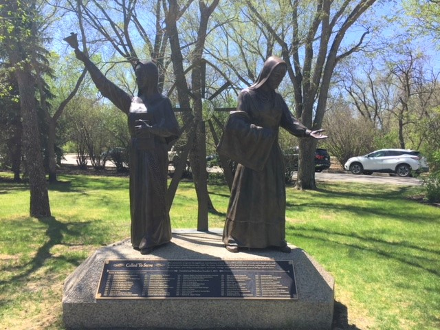 Sisters Legacy, Wascana Park, Regina, Saskatchewan